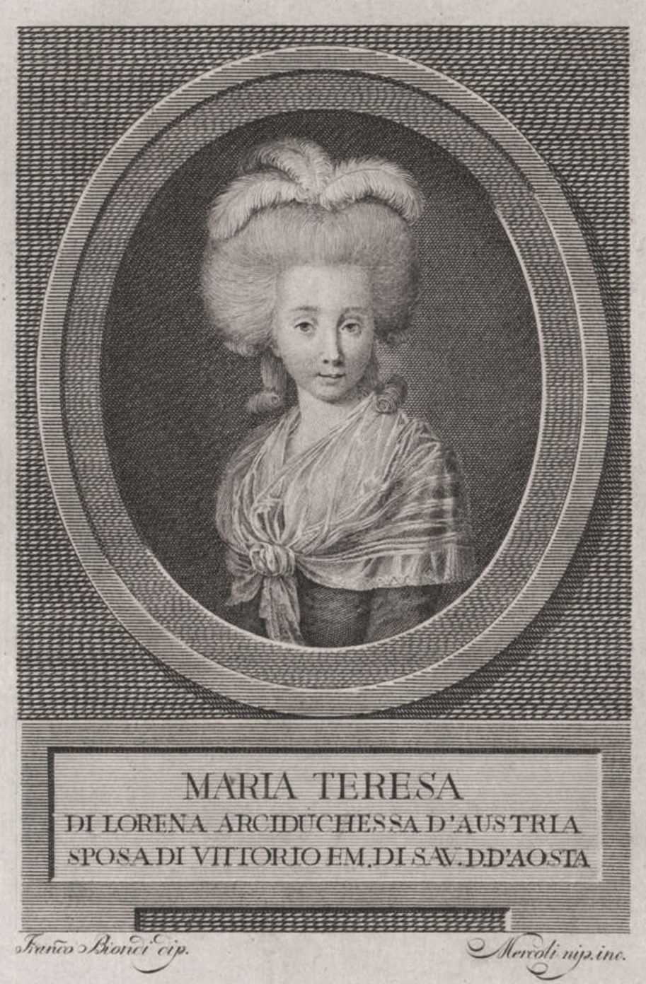 Maria Theresia, Erzherzogin von Österreich-Modena